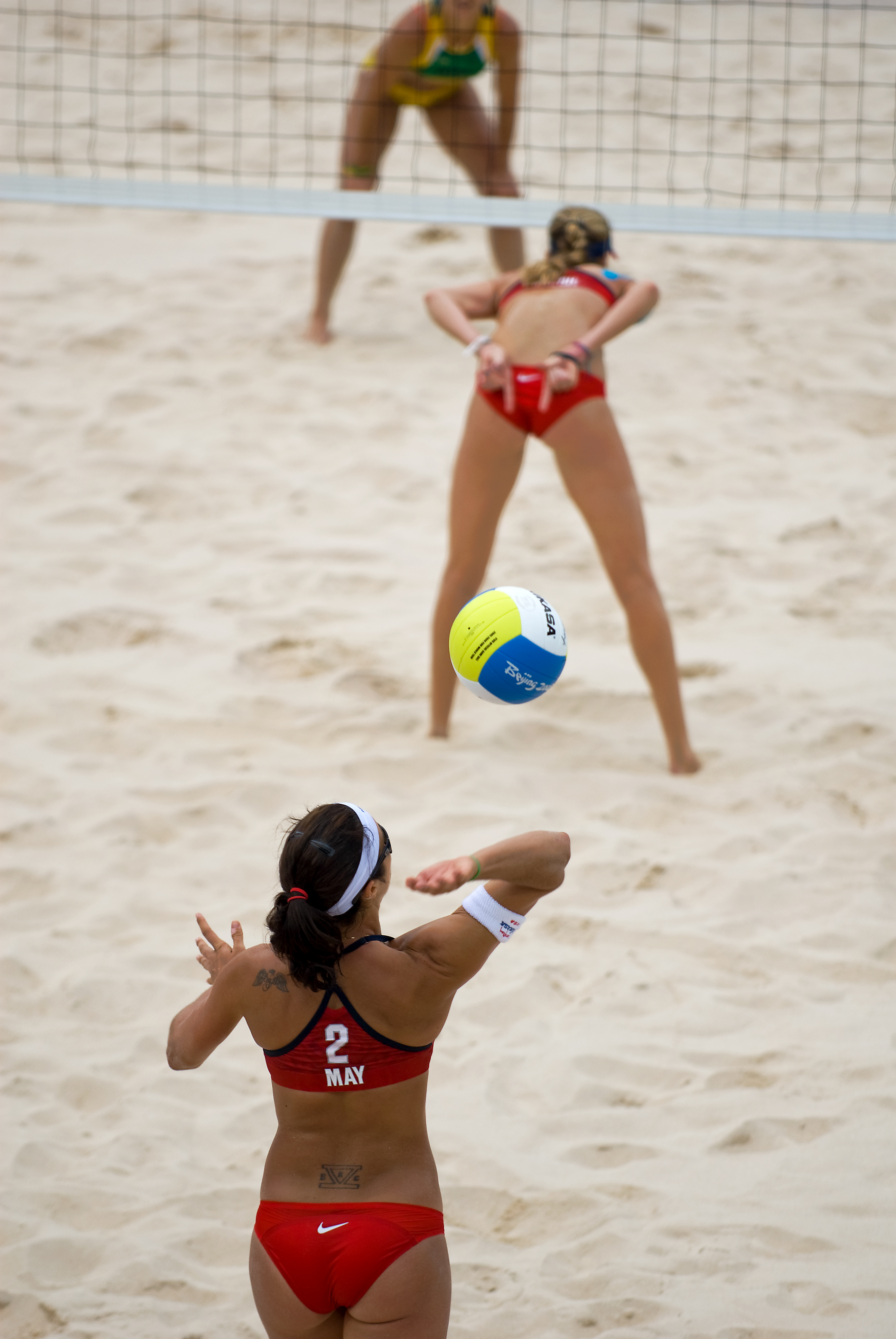 Misty May Treanor serving against Brazil in the Olympic quarterfinal match. You can see Misty's tattoos very easily in this shot.